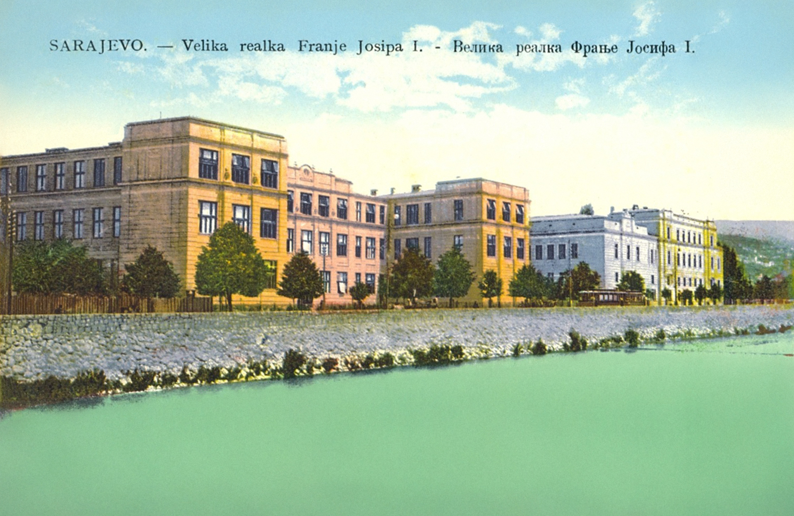 The Gymnasium of Franz Joseph I in Sarajevo